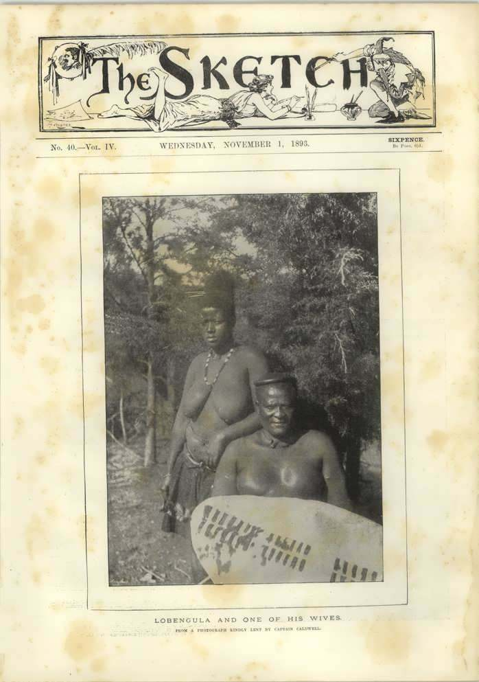 1893-King Lobengula 60 years old and One-Of His Wives.